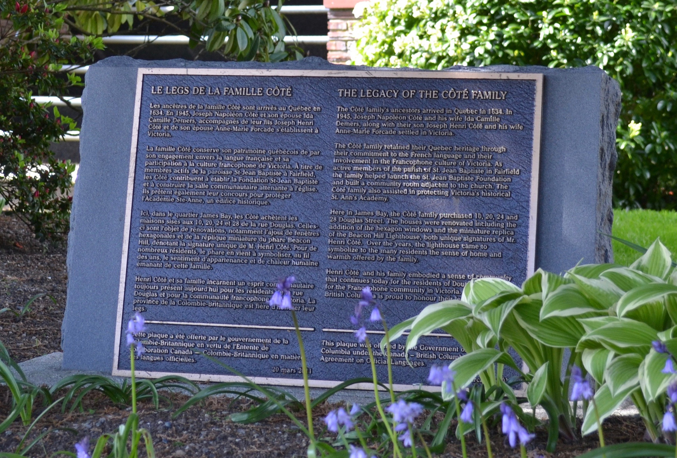 In March of 2011 the province of British Columbia recognized the Côté family for their years of service within the francophone community spanning over many decades. A plaque was issued and affixed to stone on the grounds of the Beacon Lodge.